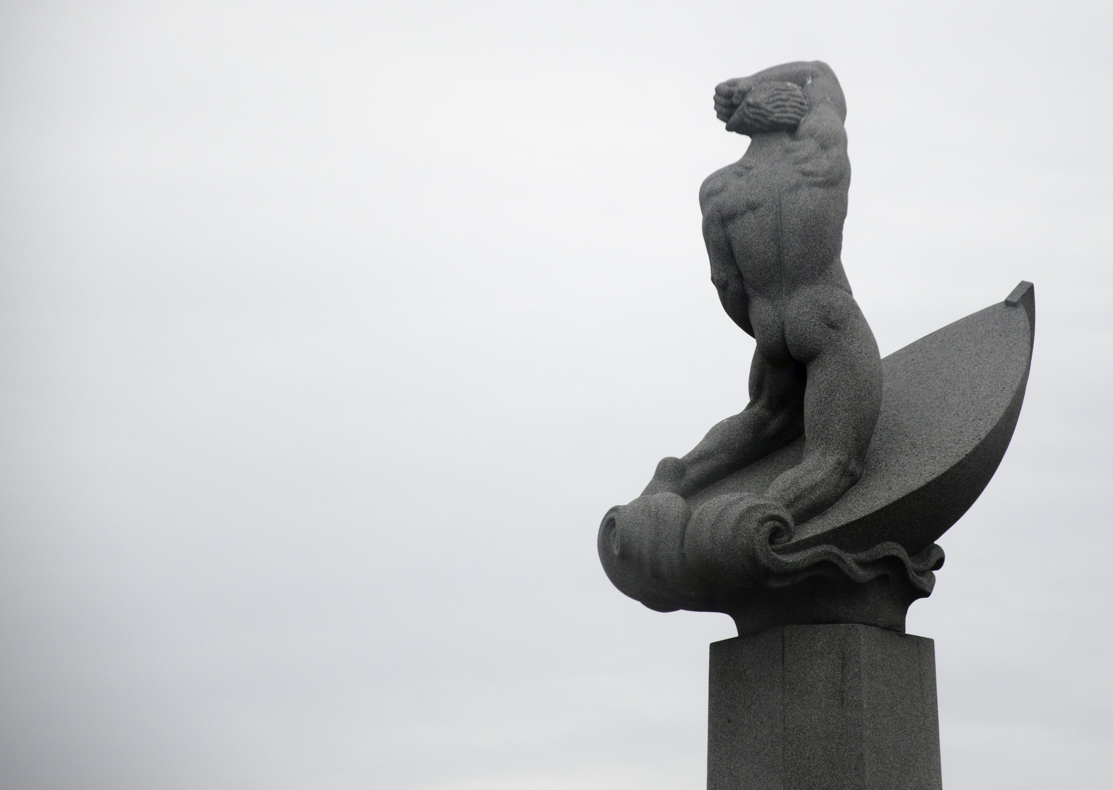 The whatching seamen